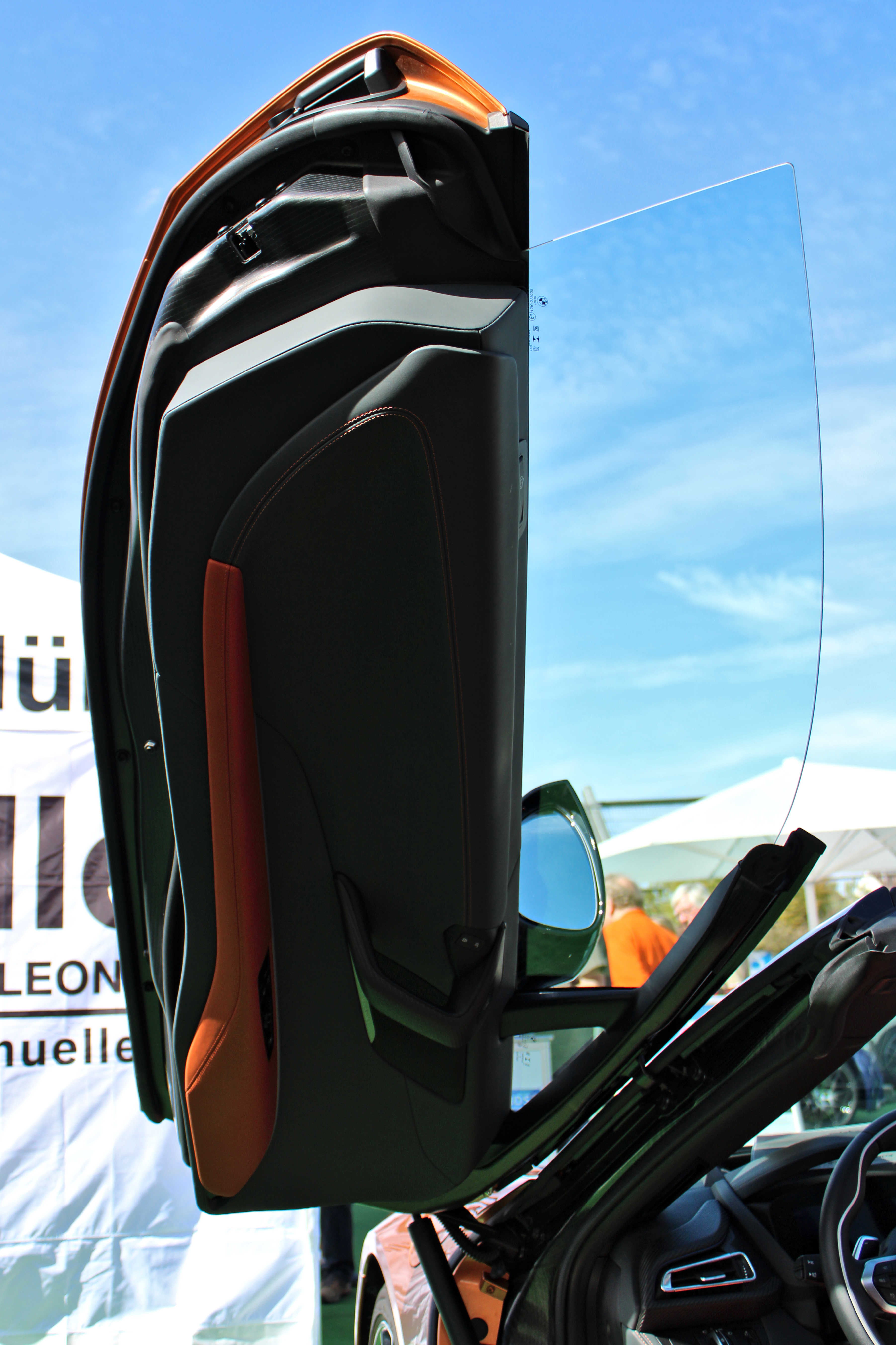 BMW i8 Roadster